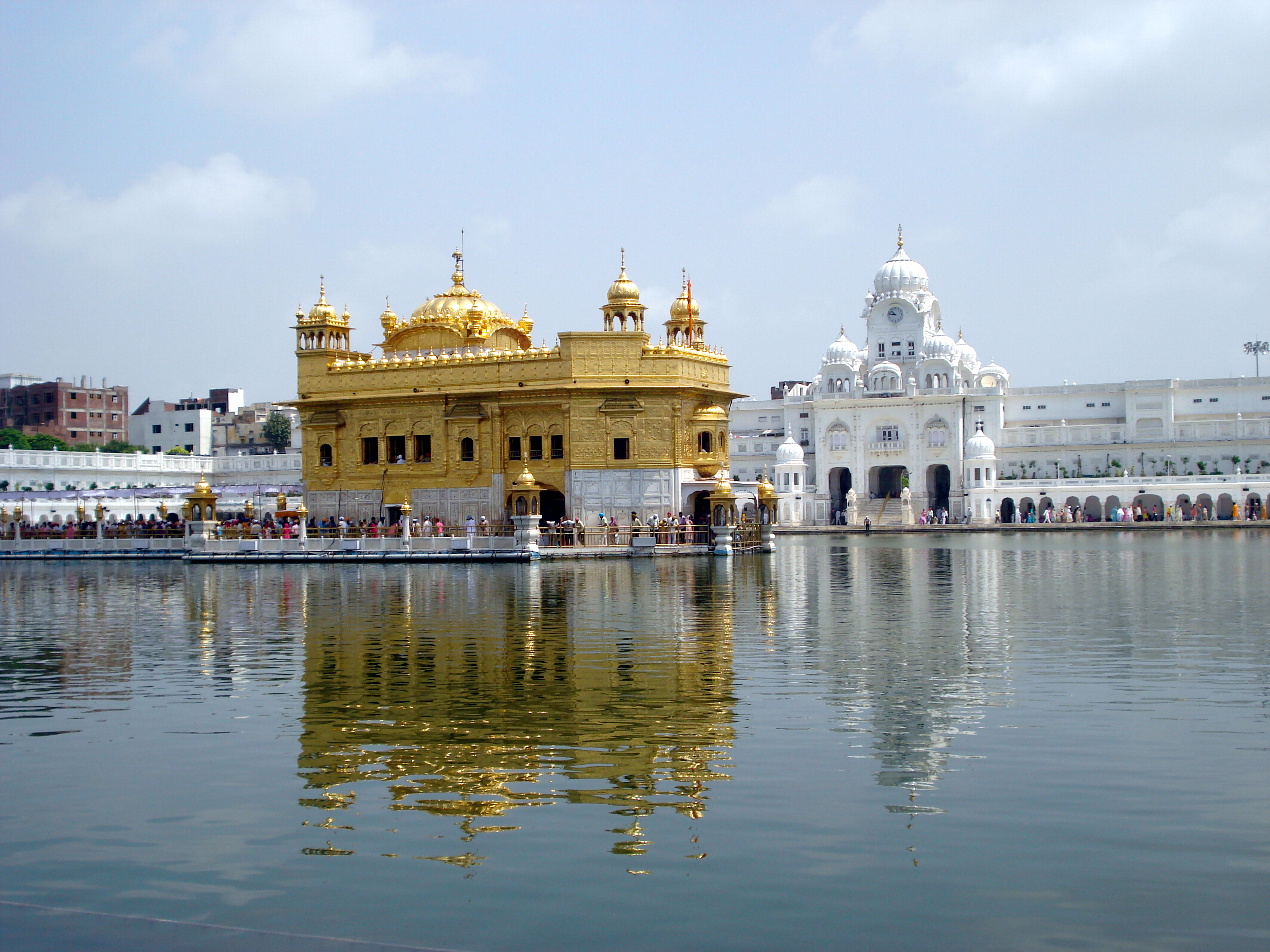 A view of the Golden Temple taken near the main entrance. ਪੰਜਾਬੀ: ਹਰਿਮੰਦਰ ਸਾਹਿਬ ਦੀ ਤਸਵੀਰ, ਮੁੱਖ ਪਰਵੇਸ਼ ਤੋਂ ਖ਼ਿੱਚੀ ਗਈ ਸੀ ।।